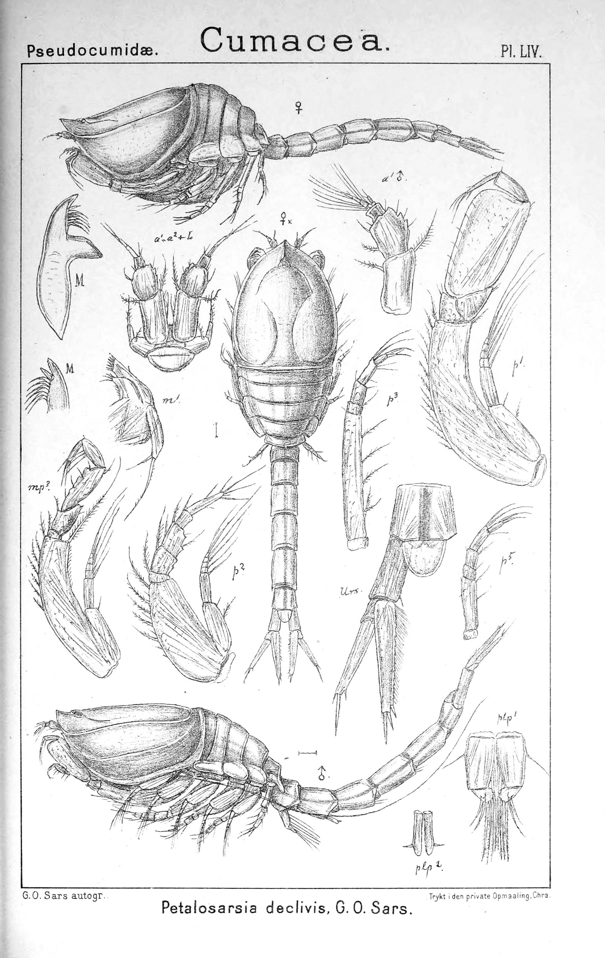 Plate LIV from Sars, G. O., (1900). An account of the Crustacea of Norway: Cumacea, Bergen Museum.